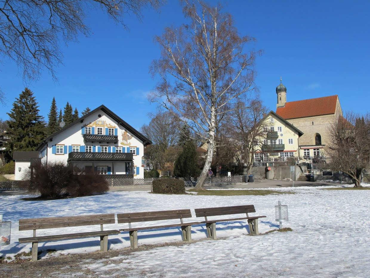 Schondorf am Ammersee, chapell St. Jakobus